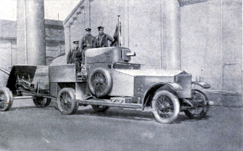 Anthony Wilding, on his armoured vehicle, at Dunkirk in April 1915 Anthony Wilding